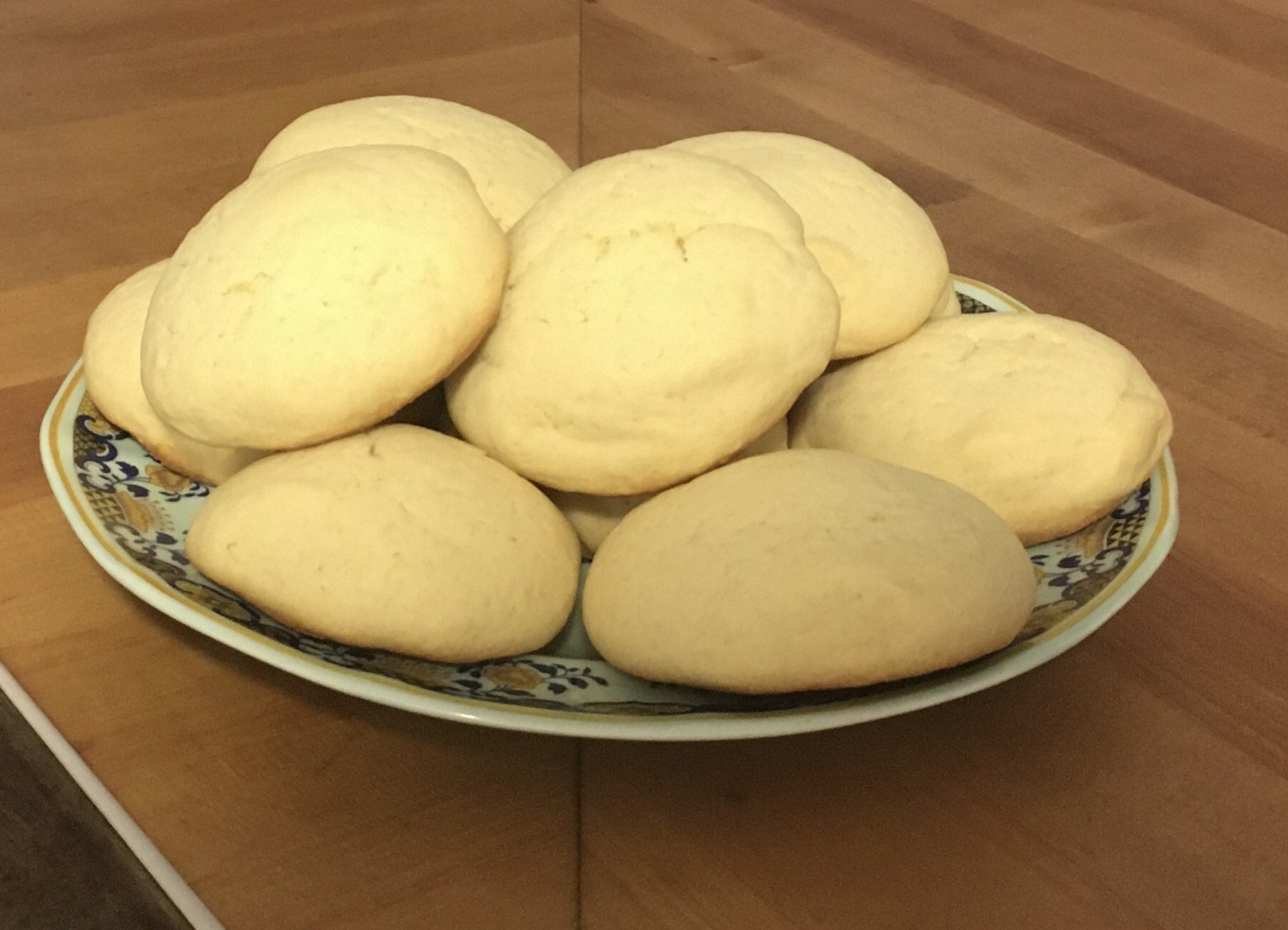 This is an image taken of a plate of sugar cookies, made using the recipe titled "Grannie Gilbert's Sugar Cookies" on wikibooks.